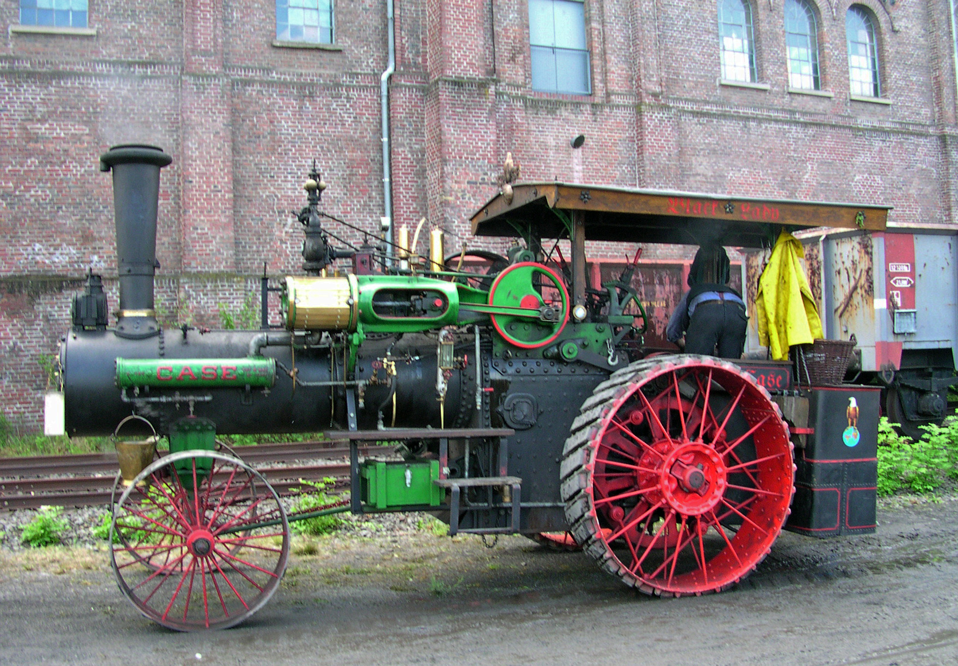 5th steam festival in Bochum, Germany 2007. CASE traction machine “Black lady”